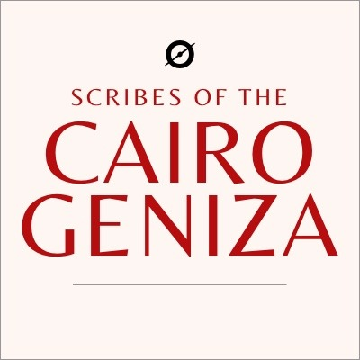 Logotipe of the Cairo Geniza project in zooniverse